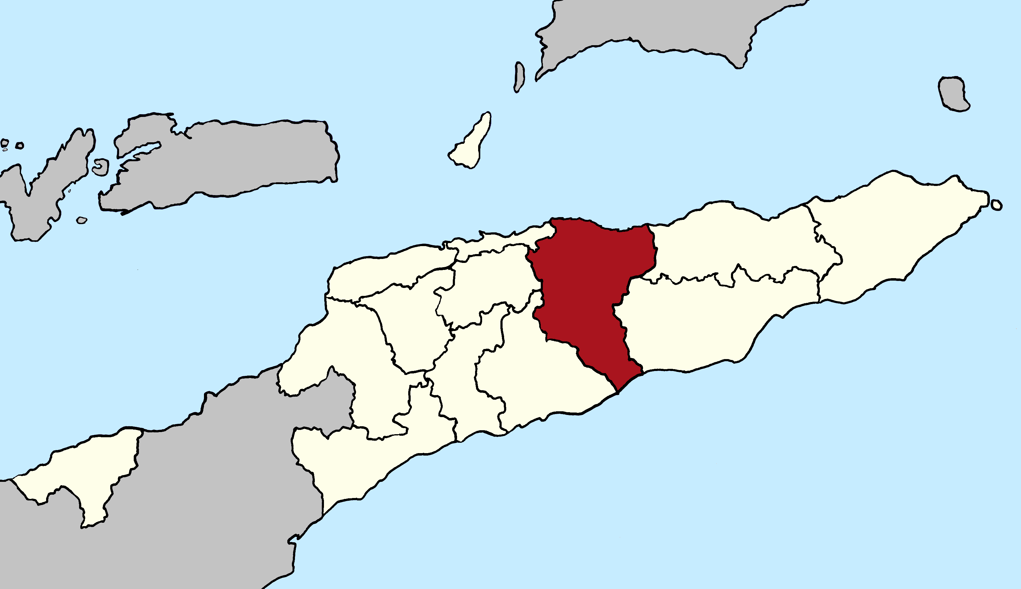 Locator map of Manatuto municipality since 2015, East Timor